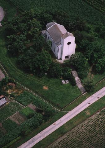 Sárszentágota, Hungary, aerialphotography